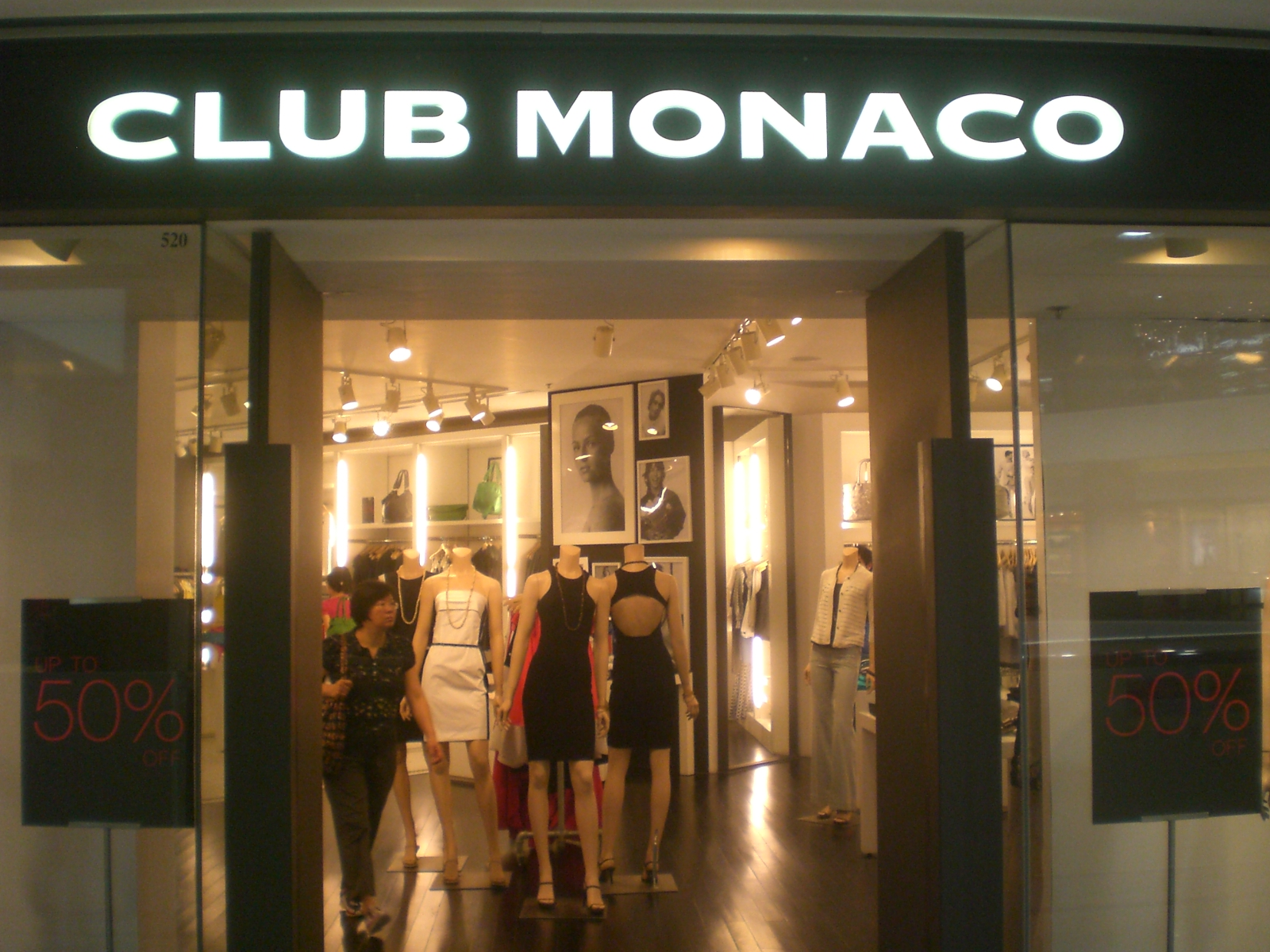 香港時代廣場